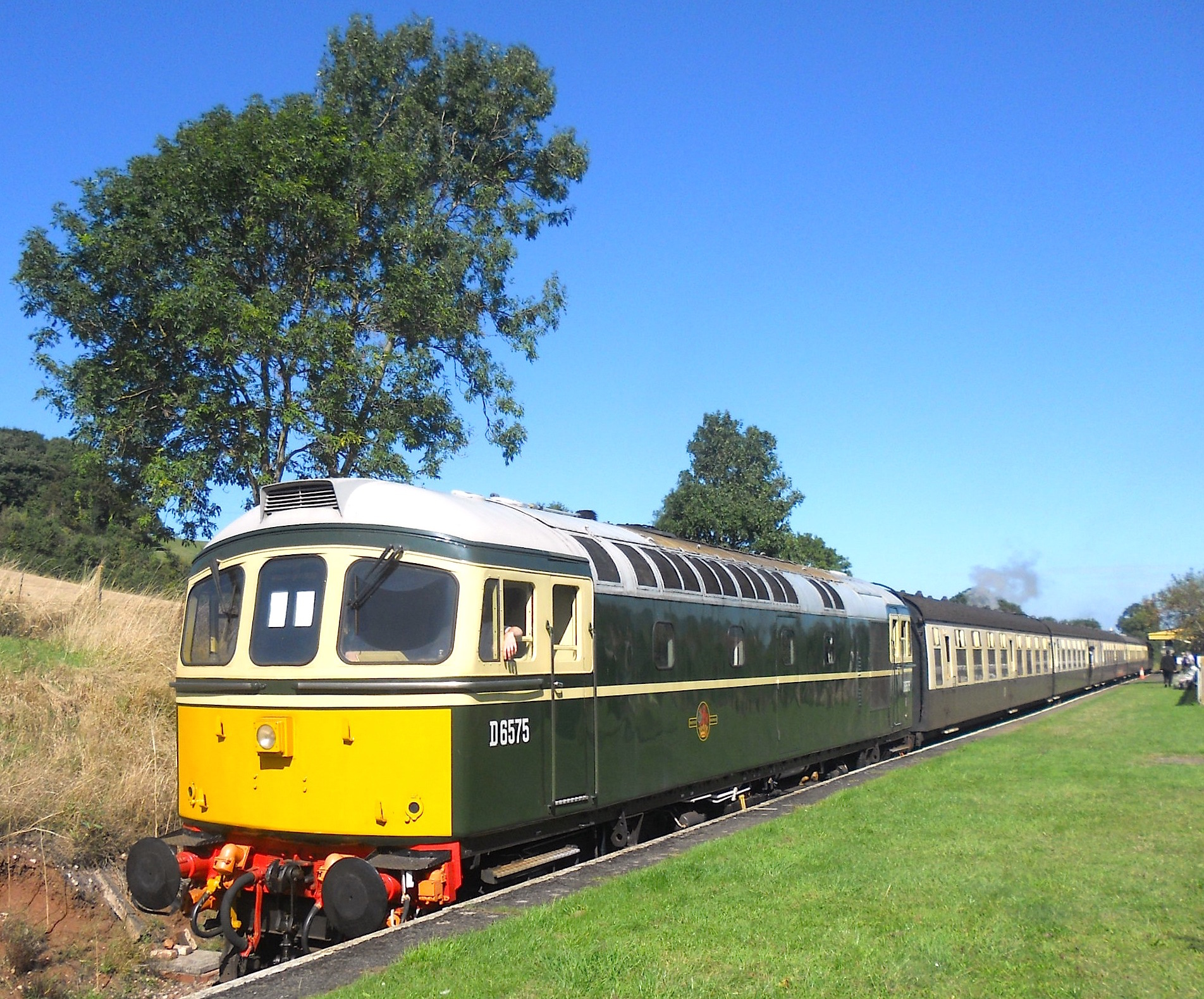 British Railways Class 33 D6575 and train are seen at Washford on the West Somerset Railway